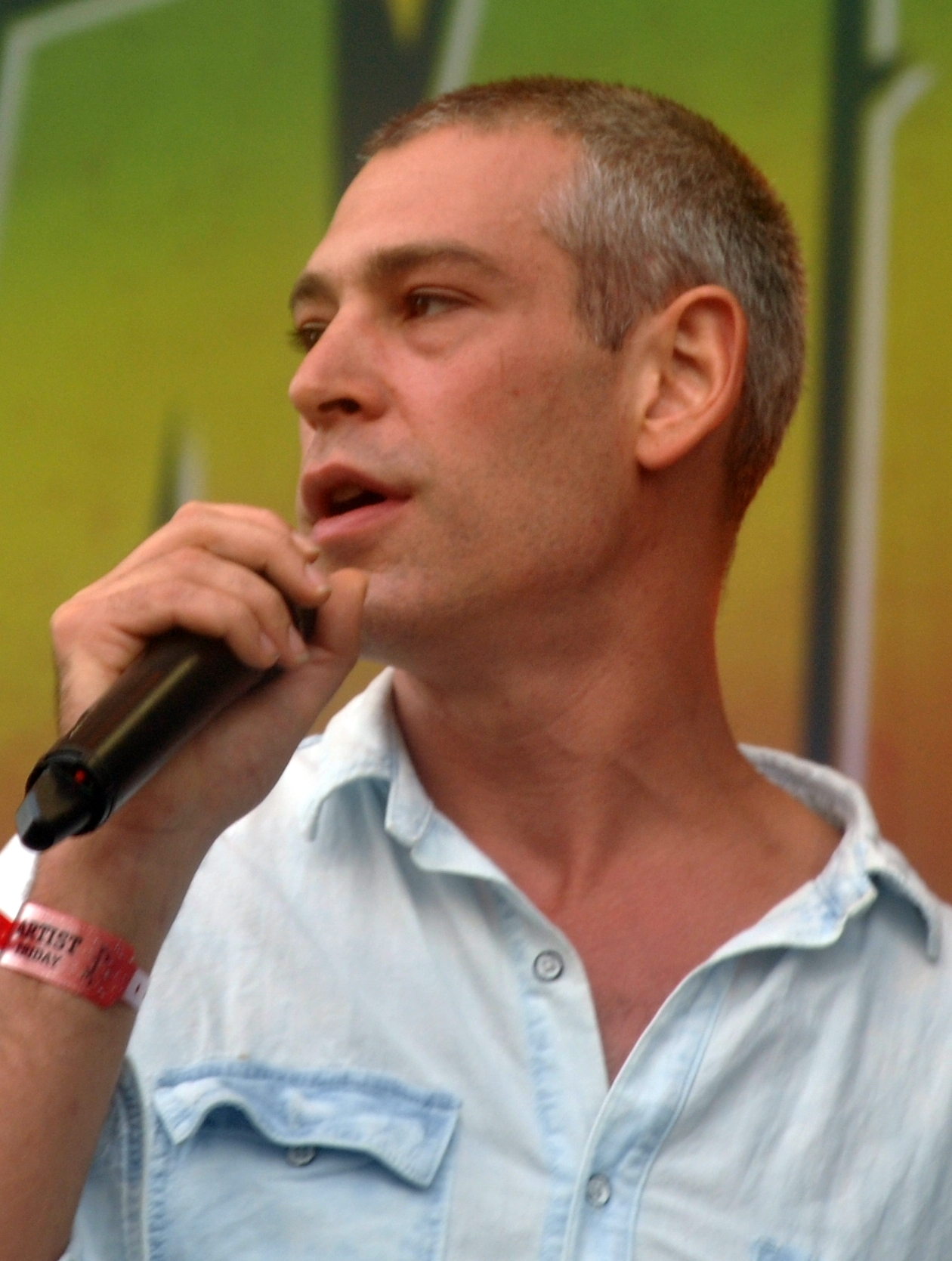 Matisyahu performing at red stage at Summerjam Festival 2013, Cologne, Germany